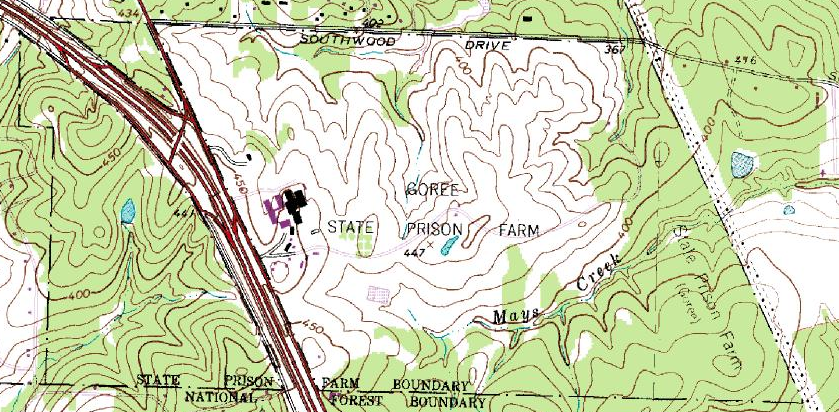 USGS topographic map of the Goree Unit in Huntsville, Texas